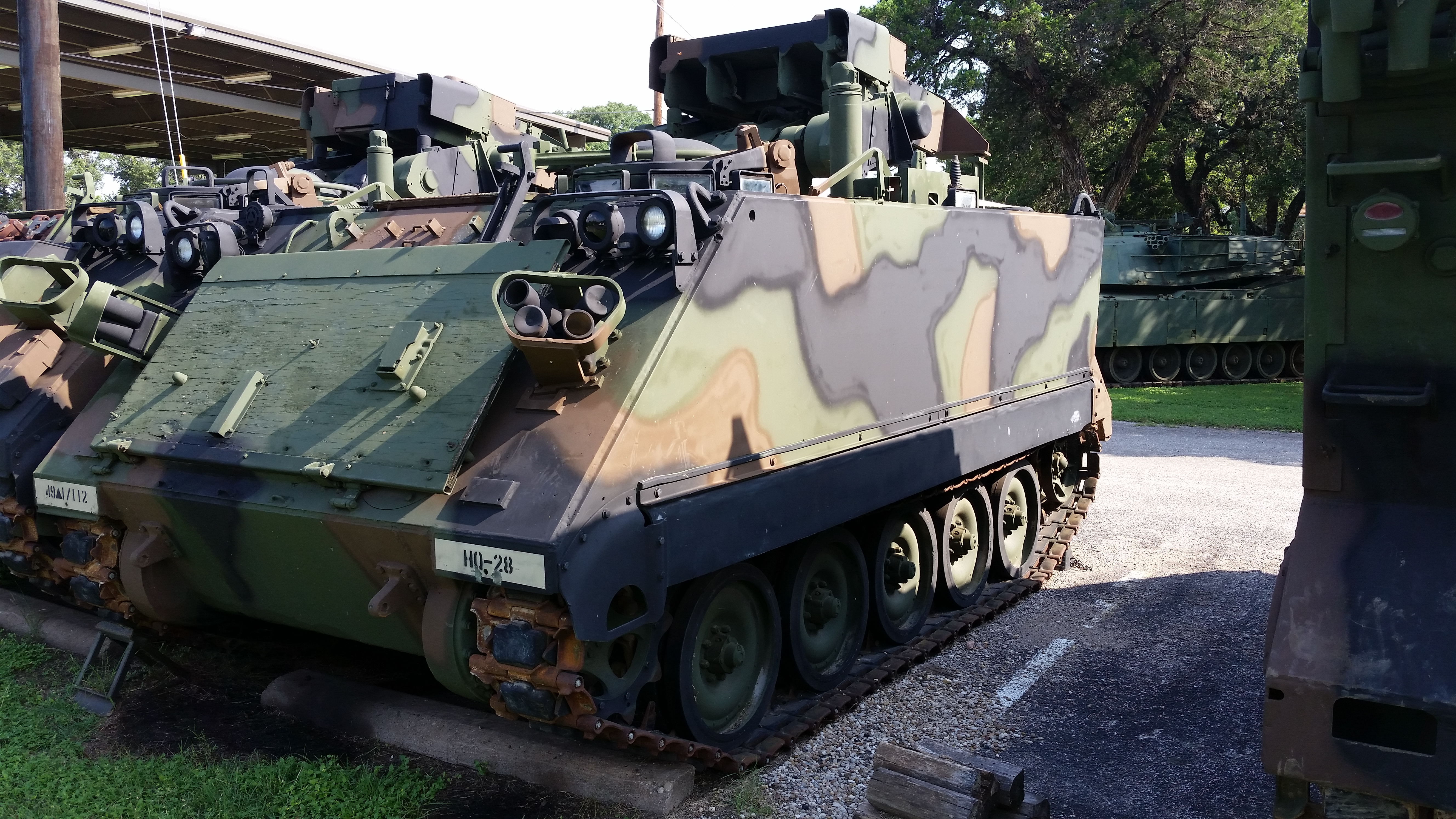 M981 FIST-V front Texas Military Forces Museum